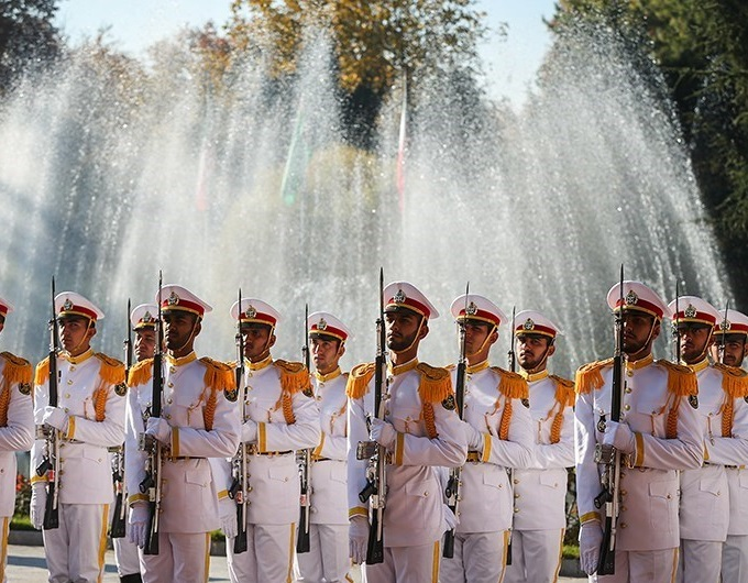 Iranian Presidential Guard in Saadabad Palace